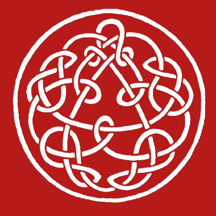 Steve Ball's "Possible Productions knotwork" appears on the cover of later versions of the King Crimson album Discipline. Ball's design has been used as the logo for Robert Fripp's music-company Possible Productions and his music-label Discipline Global Mobile (DGM). By policy, DGM does not own either copyrights or moral rights to its art; here, the design's copyrights belong to Steve Ball, who has granted a CC 3.0 SA BY license.